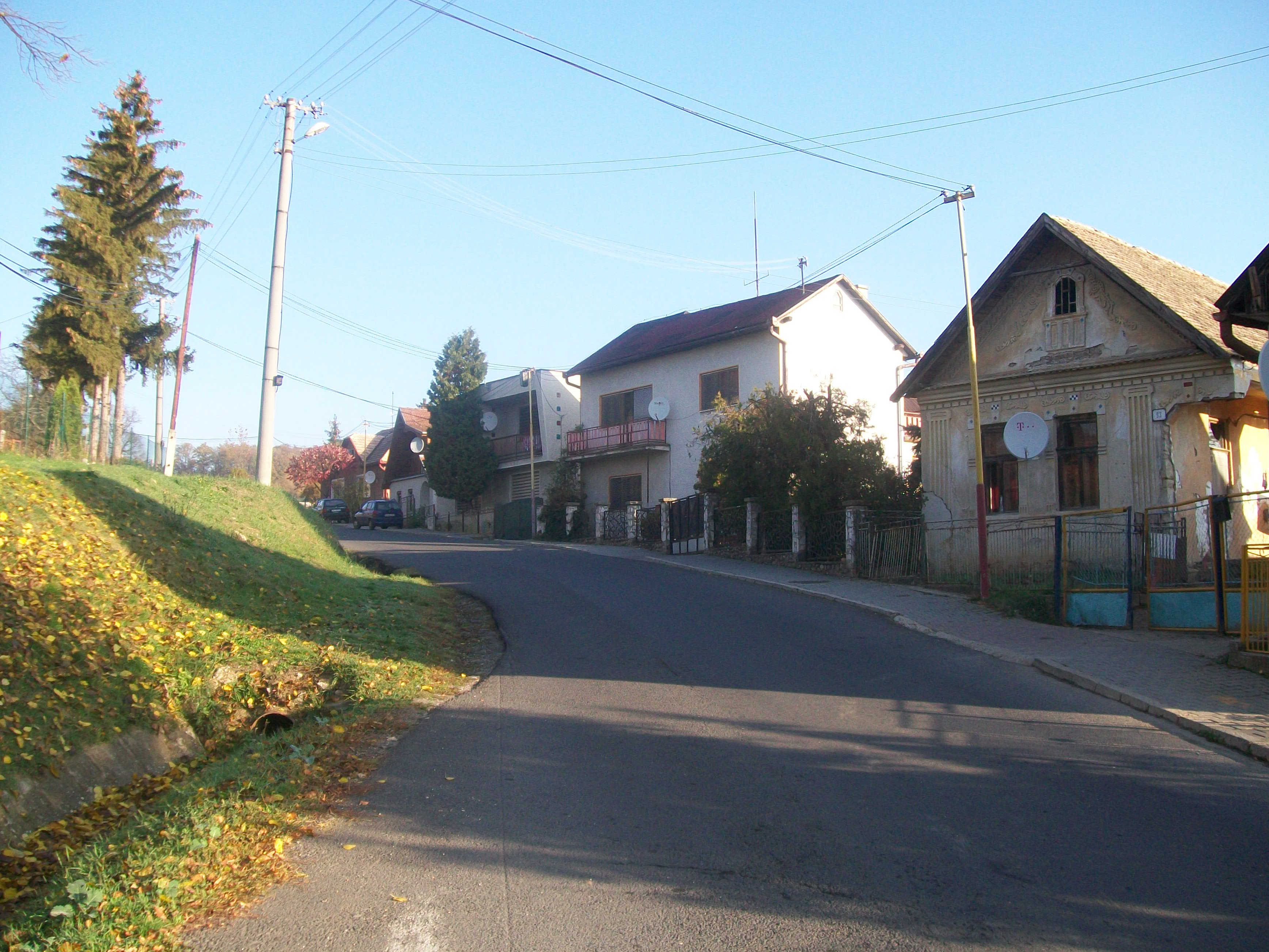 Street of the willage Veľké Zlievce